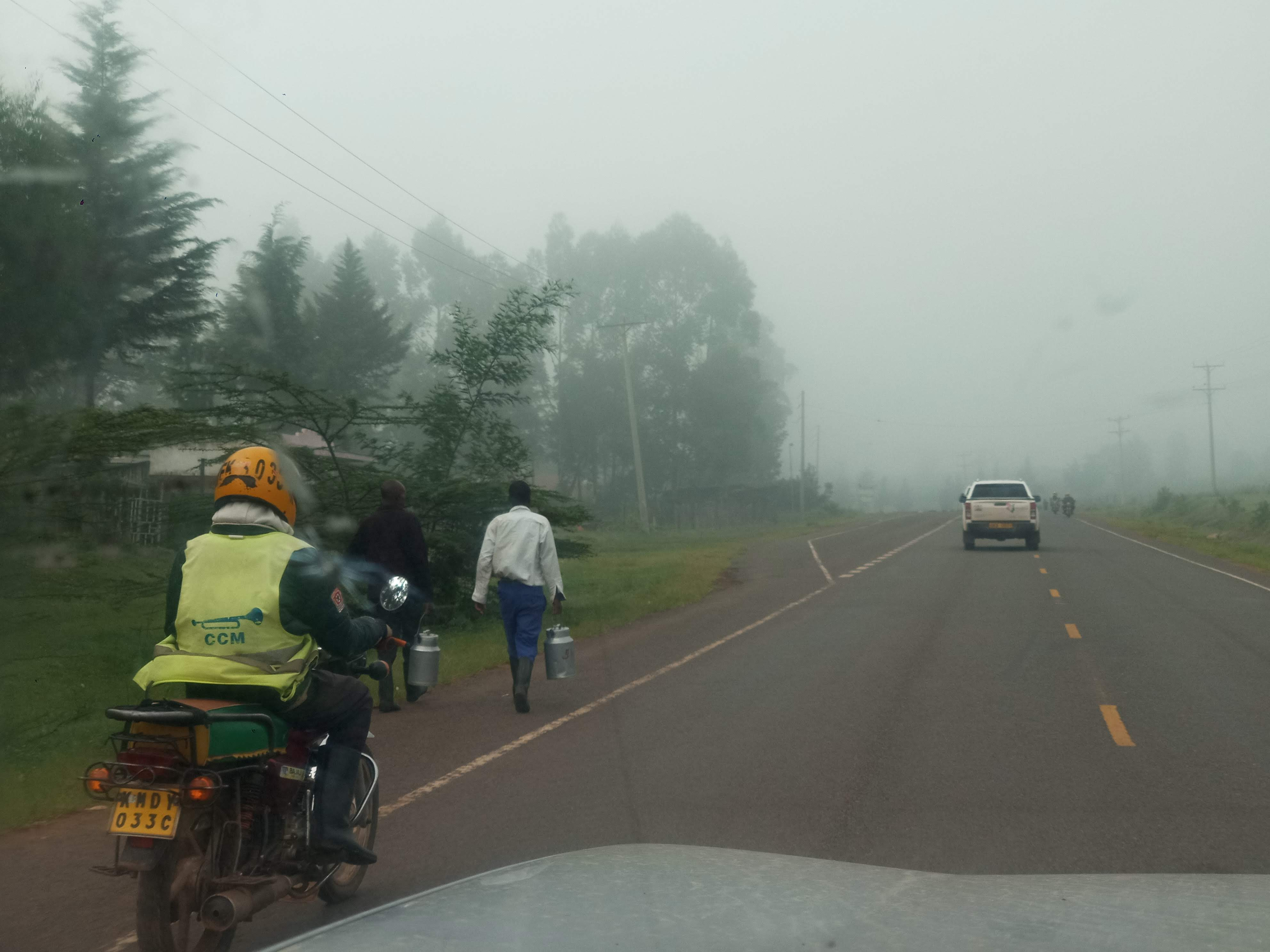 Motorcycles have become a new favorite among Kenyans due to their price and versatility. They are however still out of reach to some people, especially low income earners living simple lives. This is an image with the theme "Africa on the Move or Transport" from: Kenya